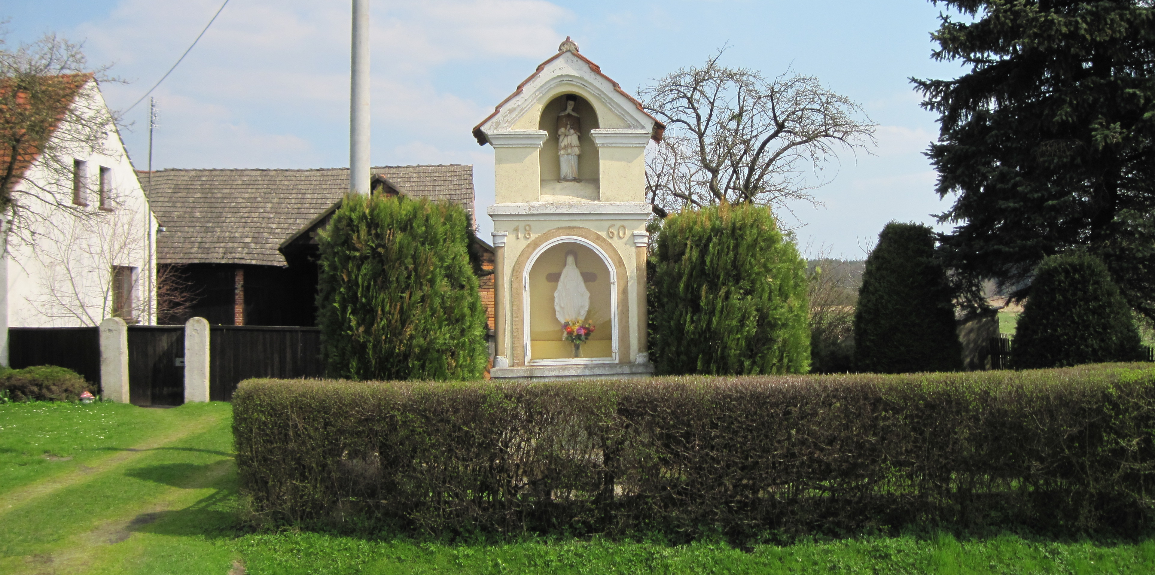 Blessed Virgin Mary's shrine with John of Nepomuk sculpture at 1 Maja street in Brynica